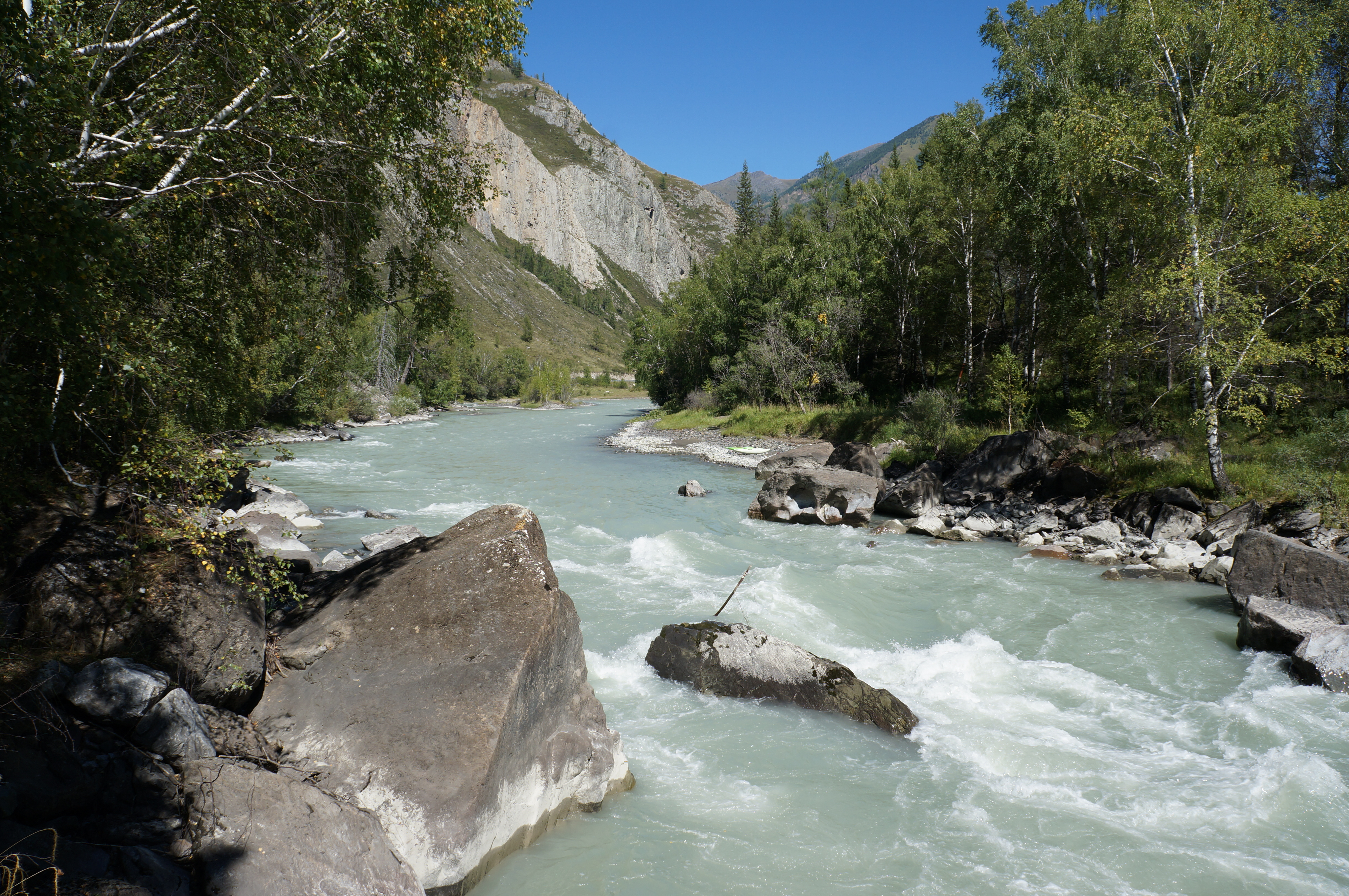 Before Begemot rapid on Chuya River (Altai Republic, Russia, August 2014)